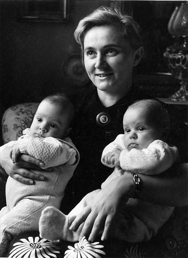 Mira Alečković with her children